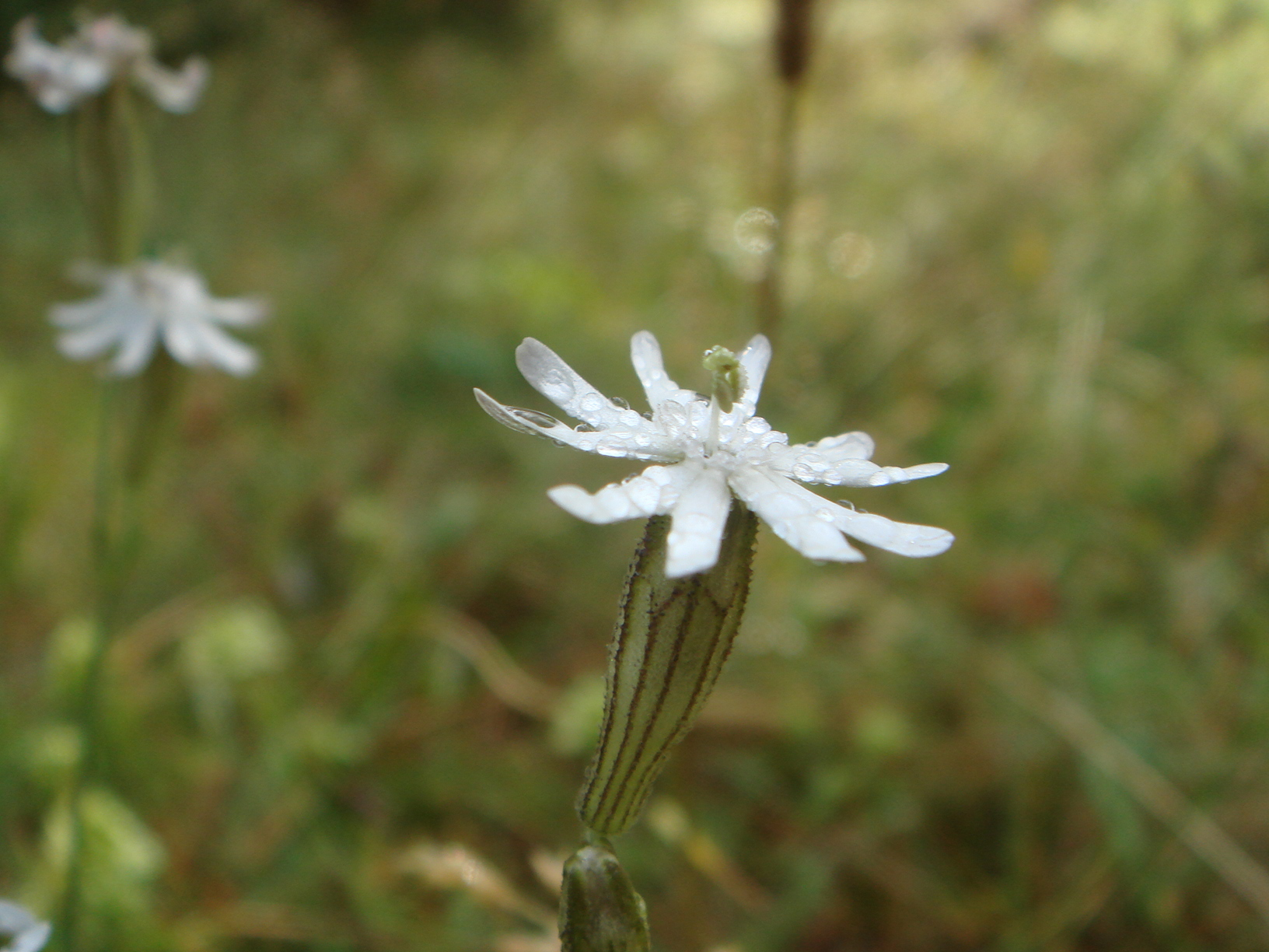 (Silene italica), province of Huesca, Pyrenees, Spain.